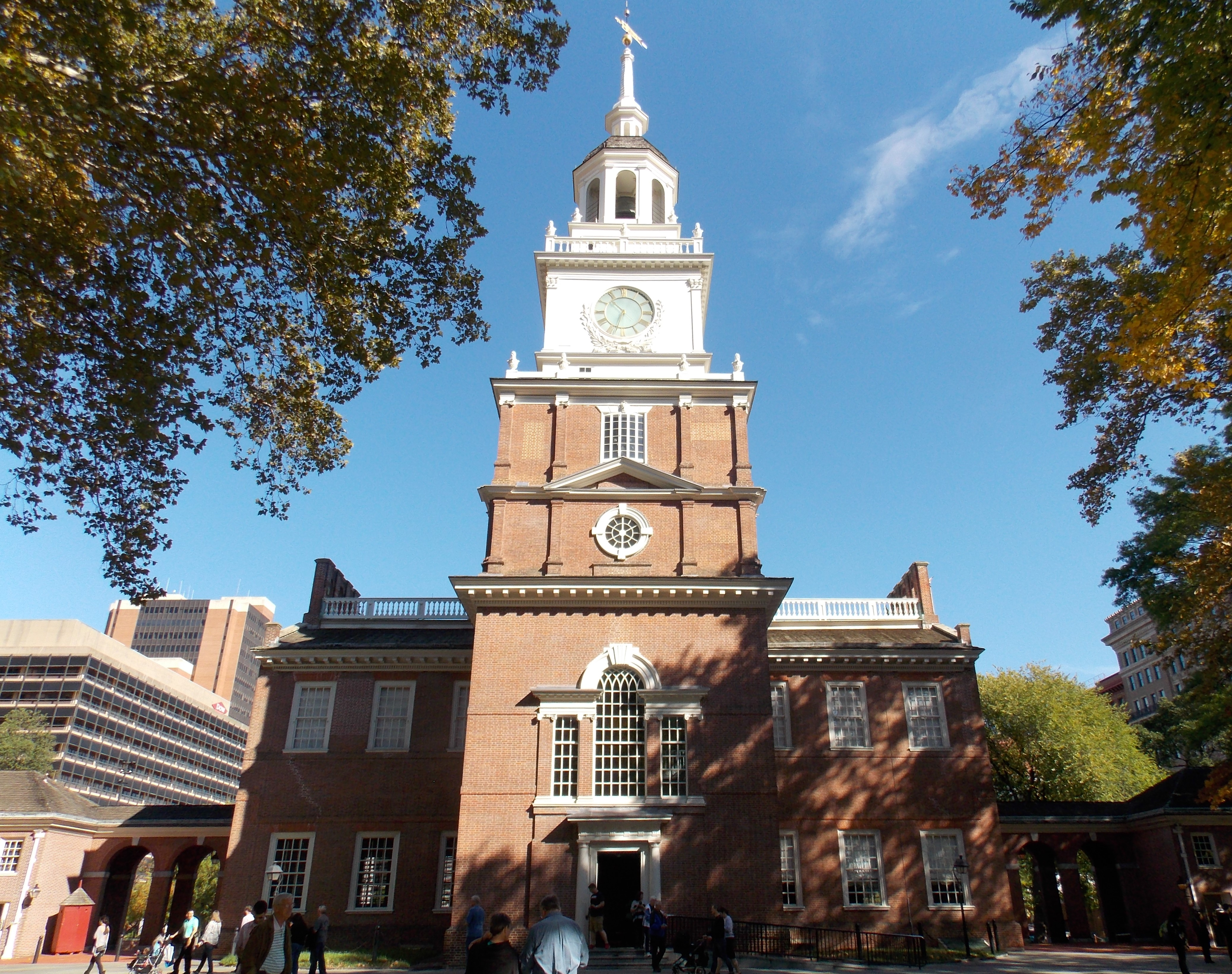 Independence Hall in Philadelphia, Pennsylvania.